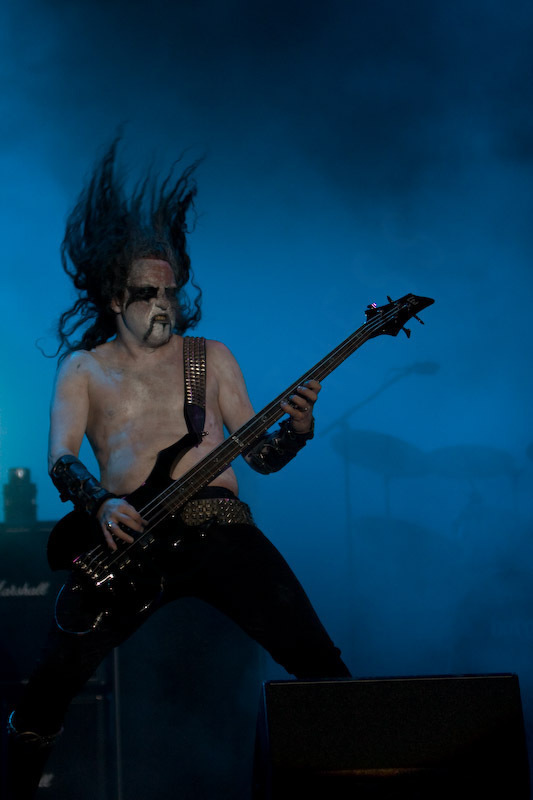 Apollyon of Immortal performing at Wacken Open Air 2007.